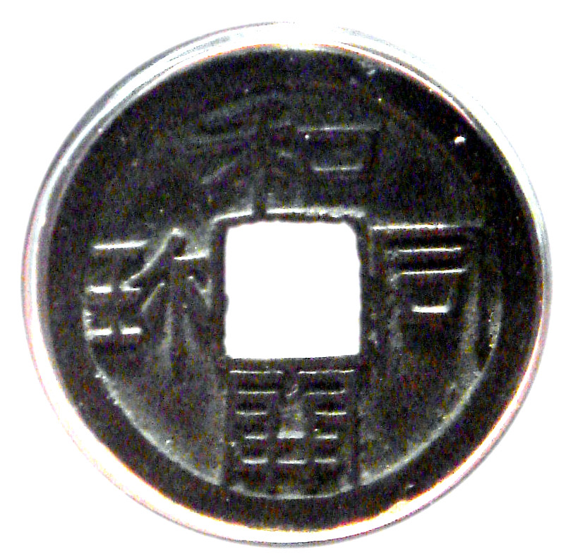 Wadokaichin_copper_coin